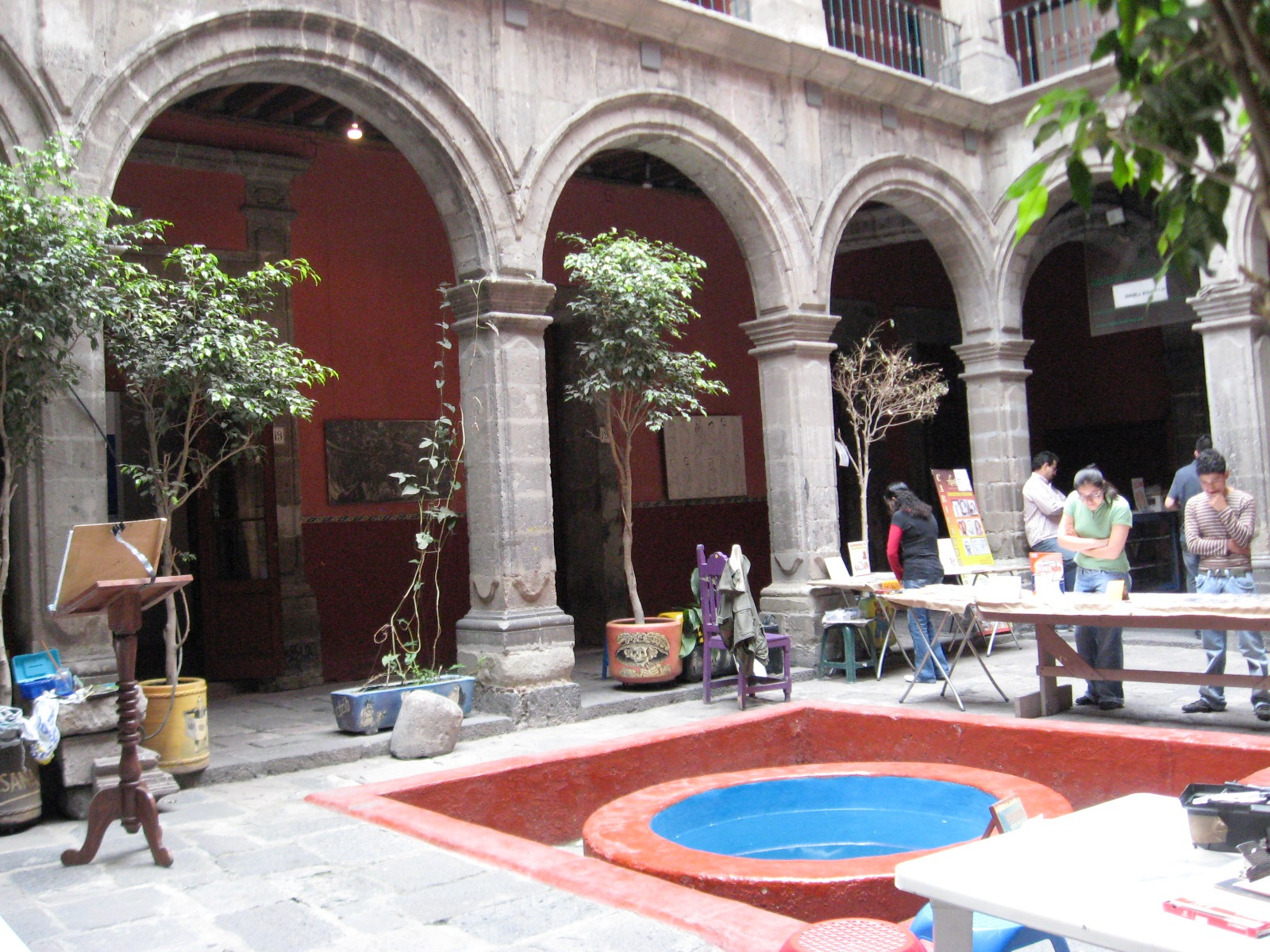 Patio area of the Caricature Museum, formerly Cristo College in the historic center of Mexico City